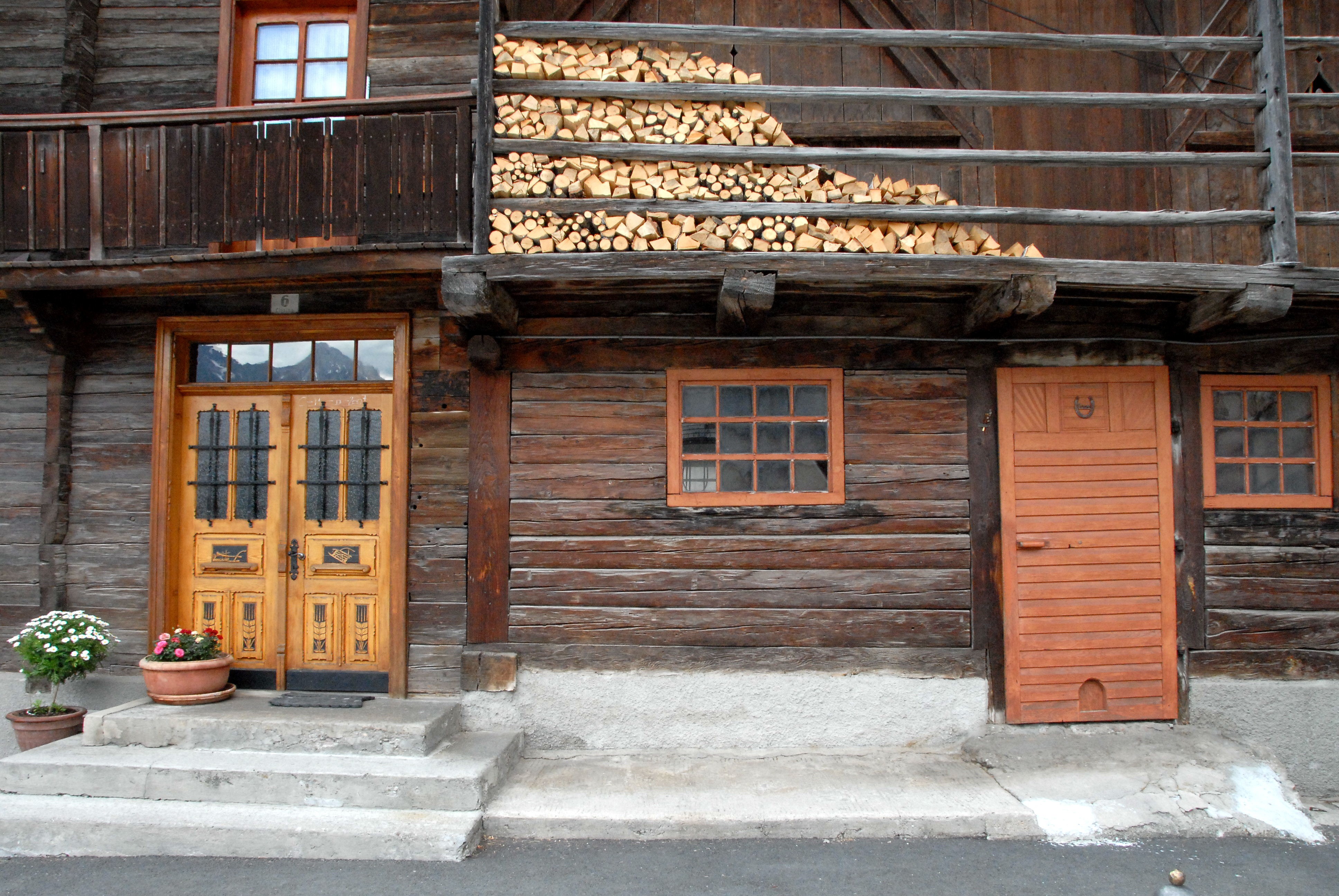 Cutout from a traditional wooden house at Liesing, municipality Lesachtal, district Hermagor, Carinthia / Austria / EU